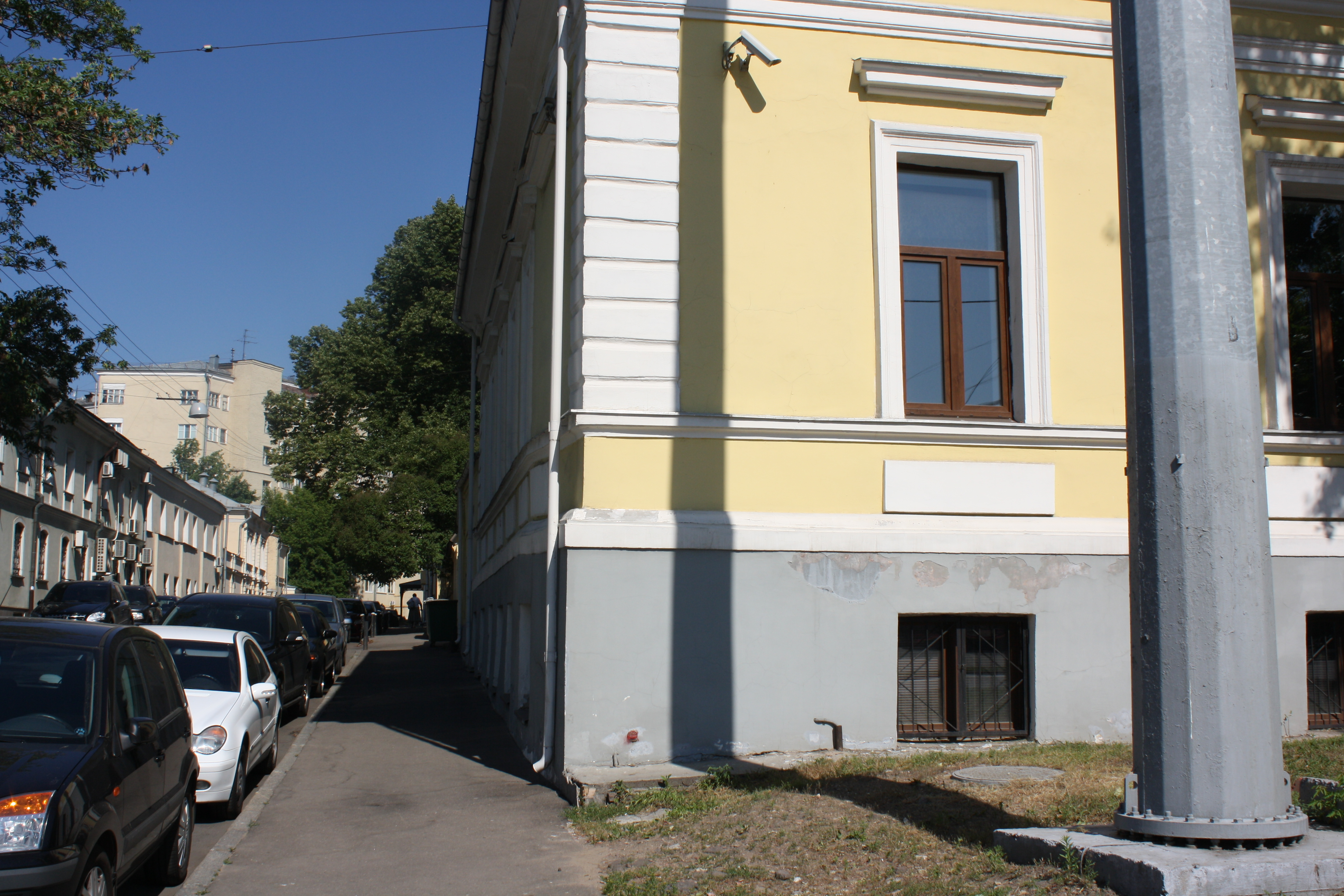 Bol'shoy Znamenskiy Lane, Moscow